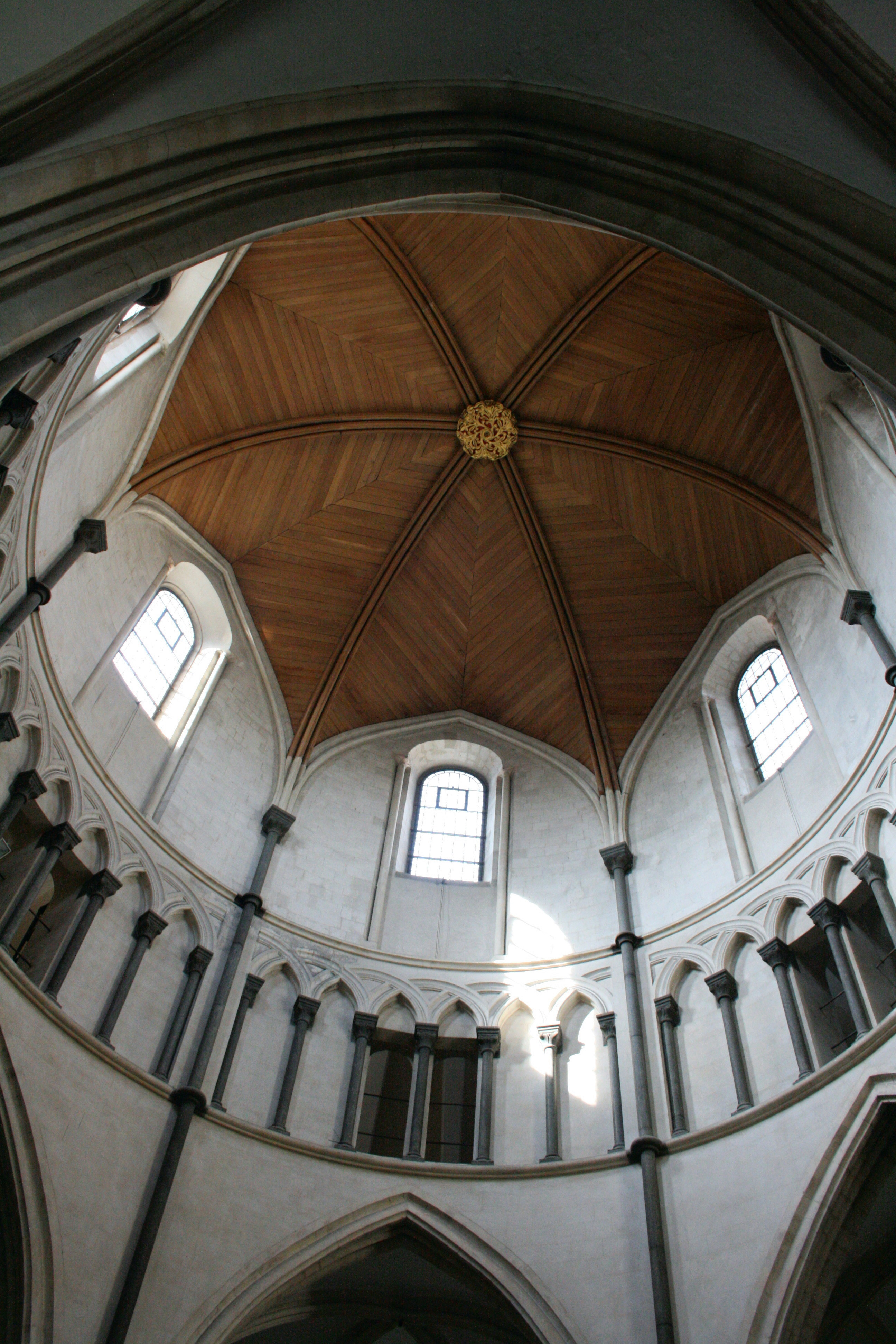 Temple Church, Temple, London EC4: interior of round church (AD 1185). The triforium has interlaced semi-circular arches supported on Purbeck marble shafts